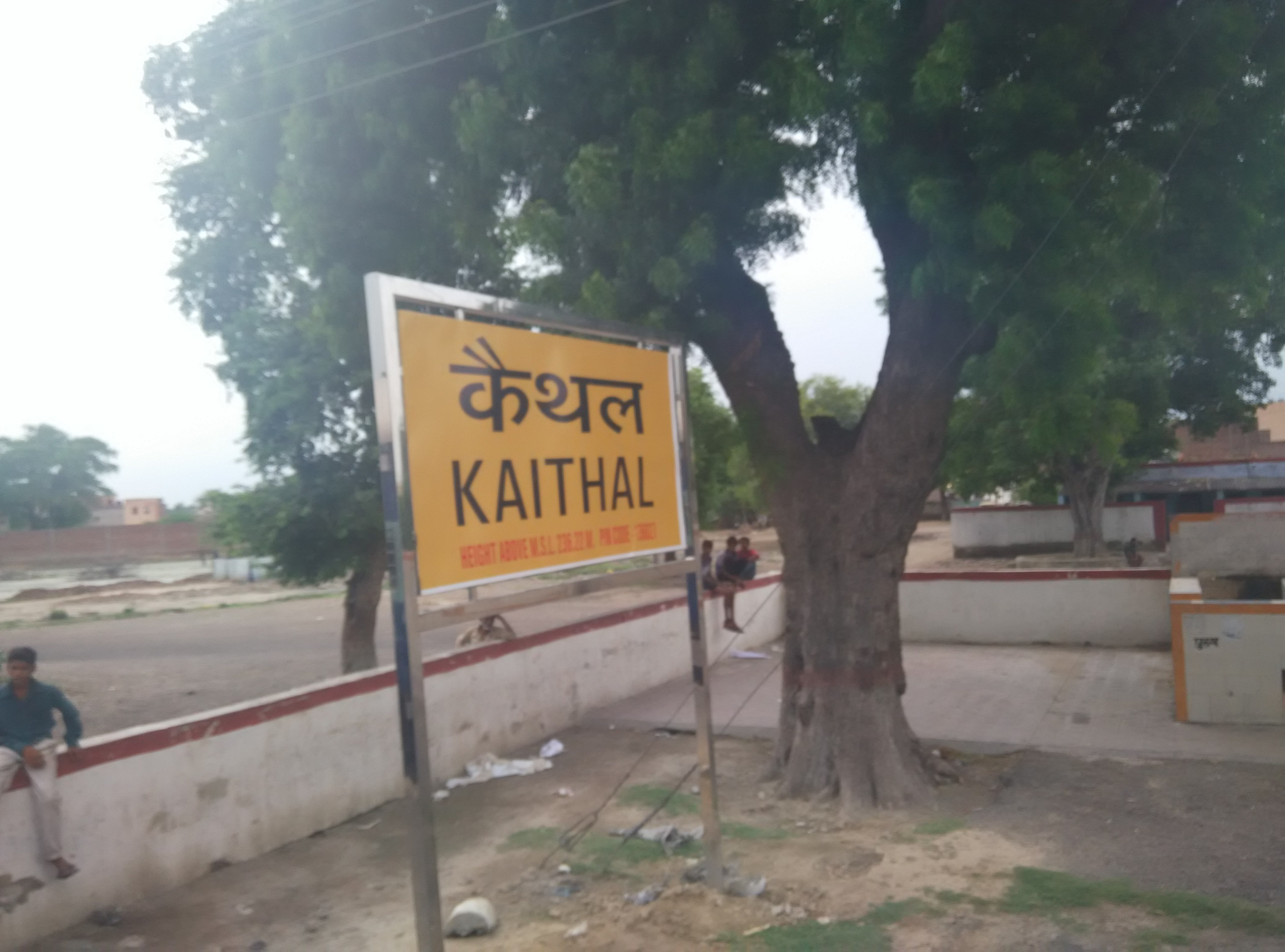 Kaithal Railway Station